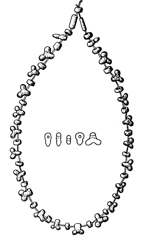 Beads of a necklace from the neolithic site of Pigna (Italy)